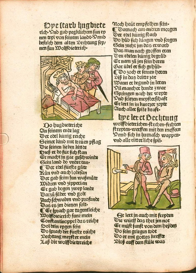 The Strassburg Heldenbuch, printed by Johann Schönsperger, Augsburg 1491. Folio 49v. Text: Wolfdietrich. Woodcuts:death of Hugdietrich; Bechtung training Wolfdietrich in knife-throwing